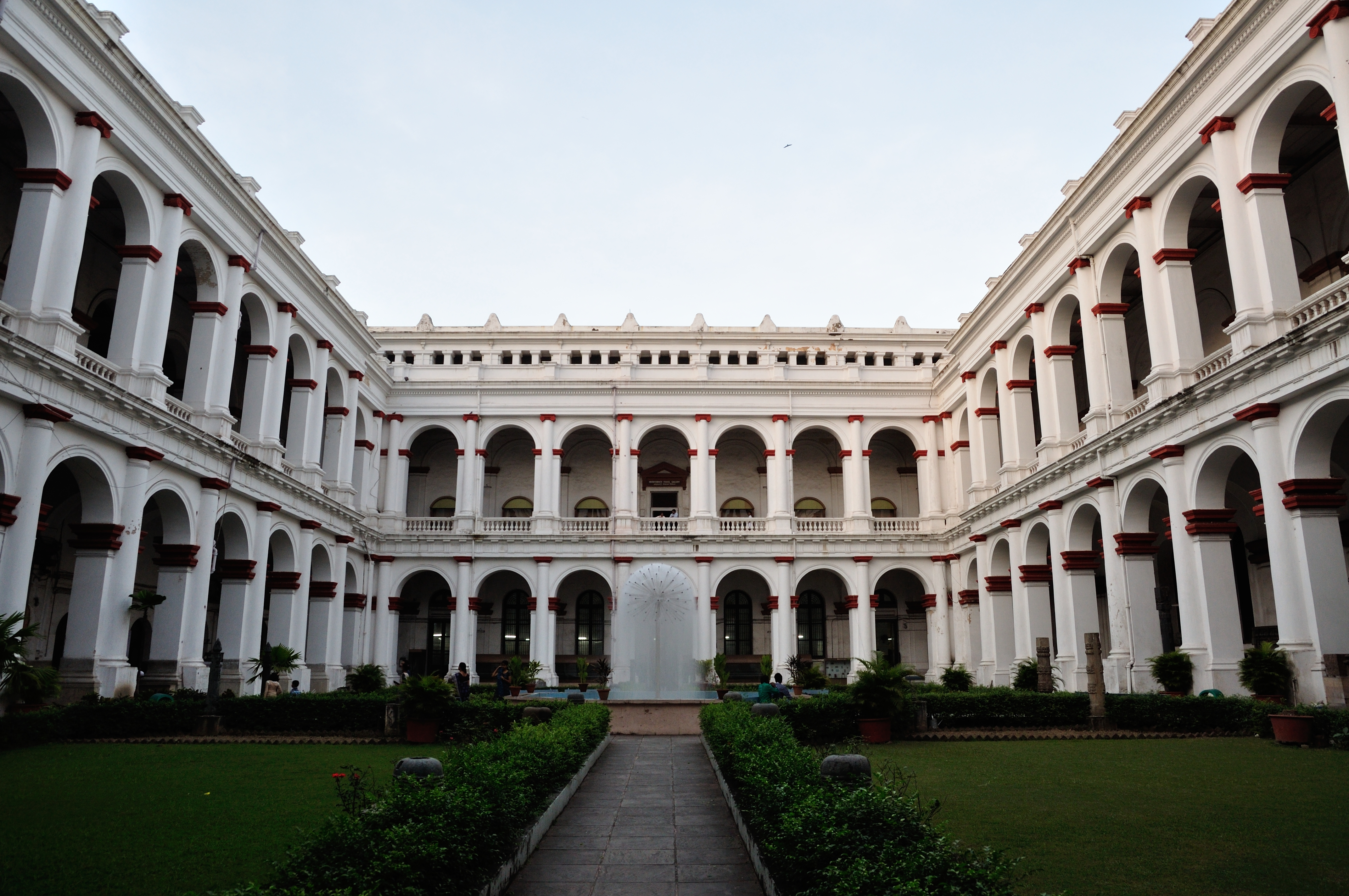 The Indian Museum (Bengali: ভারতীয় জাদুঘর) is the largest museum in India.